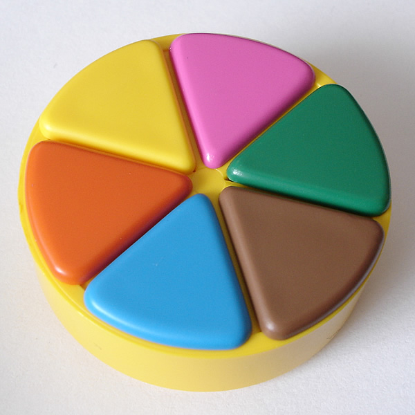 Author: Christian Heldt Date: Oct 10 2005